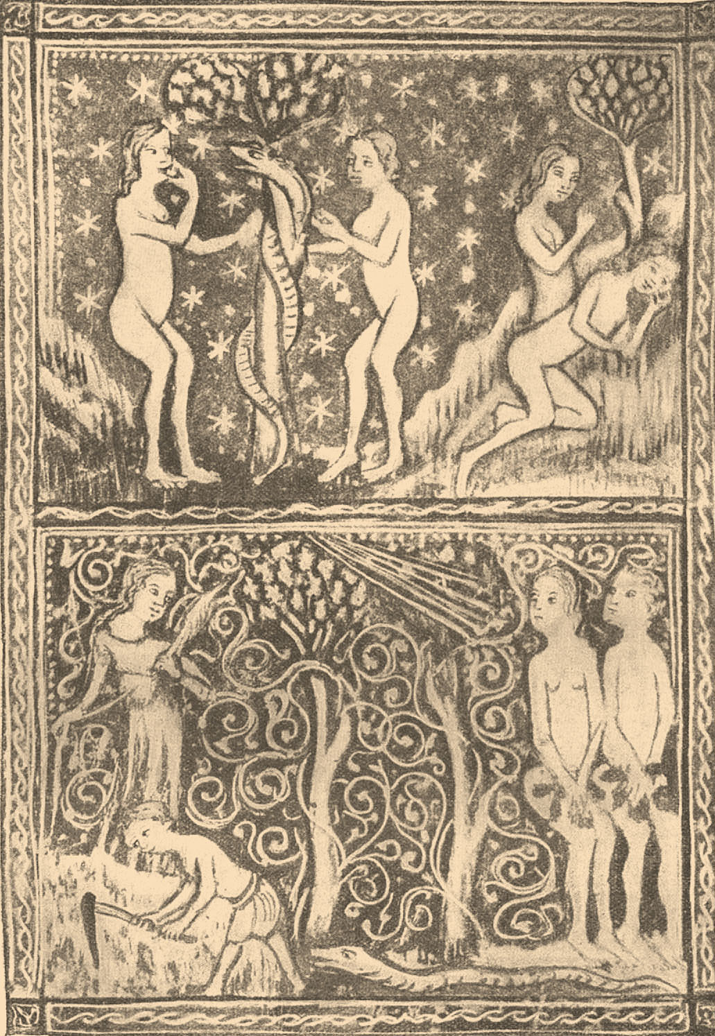 Illustration from Brockhaus and Efron Jewish Encyclopedia (1906—1913)